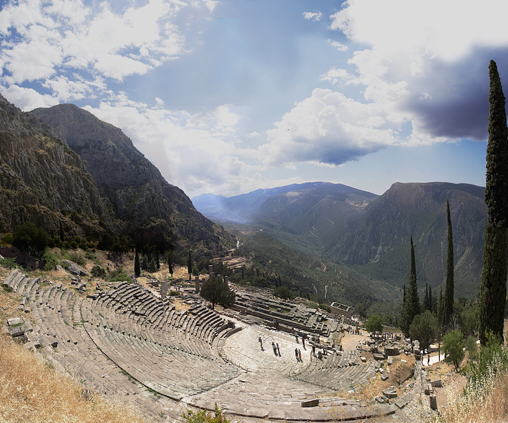 I have taken the images while in Delphi last summer. This is a composite of several images.